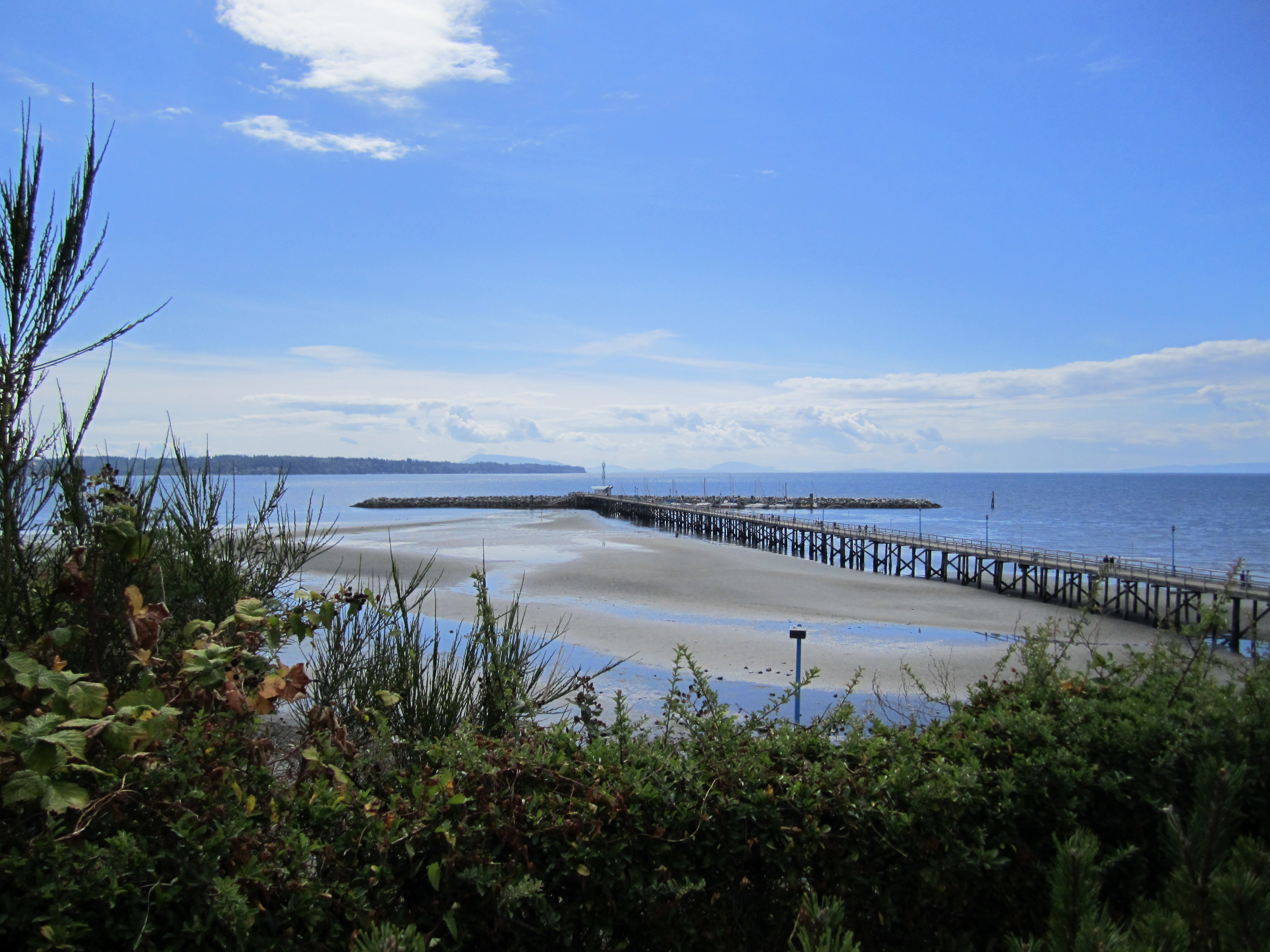 A photo taken of White Rock pier and the surrounding environs, from an elevated parking lot nearby.